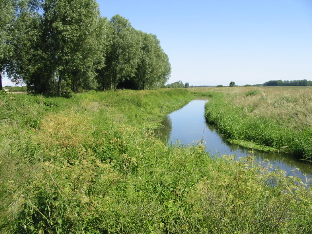 The Little Stour in the Newnham Valley